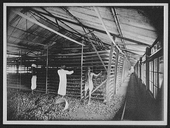 Title: Tea factory scene - in the withering loft Physical description: 1 photographic print : gelatin silver ; 8 x 10 in. or smaller. Notes: Gift; Colorado Historical Society; 1949.; Forms part of: Jackson, William Henry, 1843-1943. World's Transportation Commission photograph collection (Library of Congress).; Published as halftone in Harper's Weekly, 1895, p. 511.; Similar to lantern slide W7-248.; Photographic print made by LC from Jackson's vintage film negative.